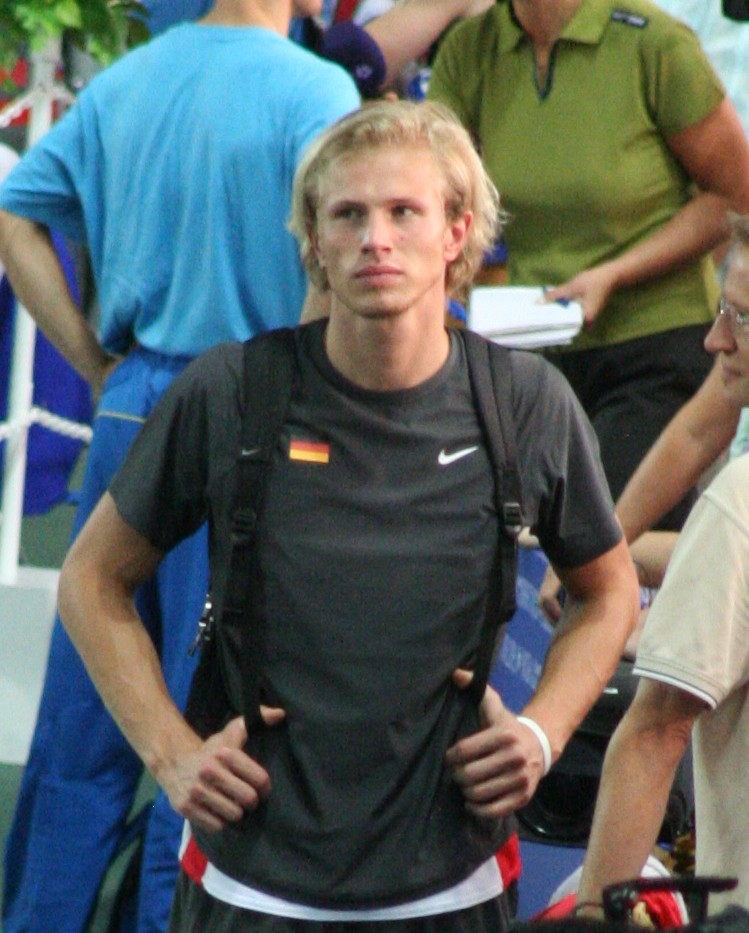 World Athletics Championships 2007 in Osaka - German High Jumper Eike Onnen at the interview stand after the final